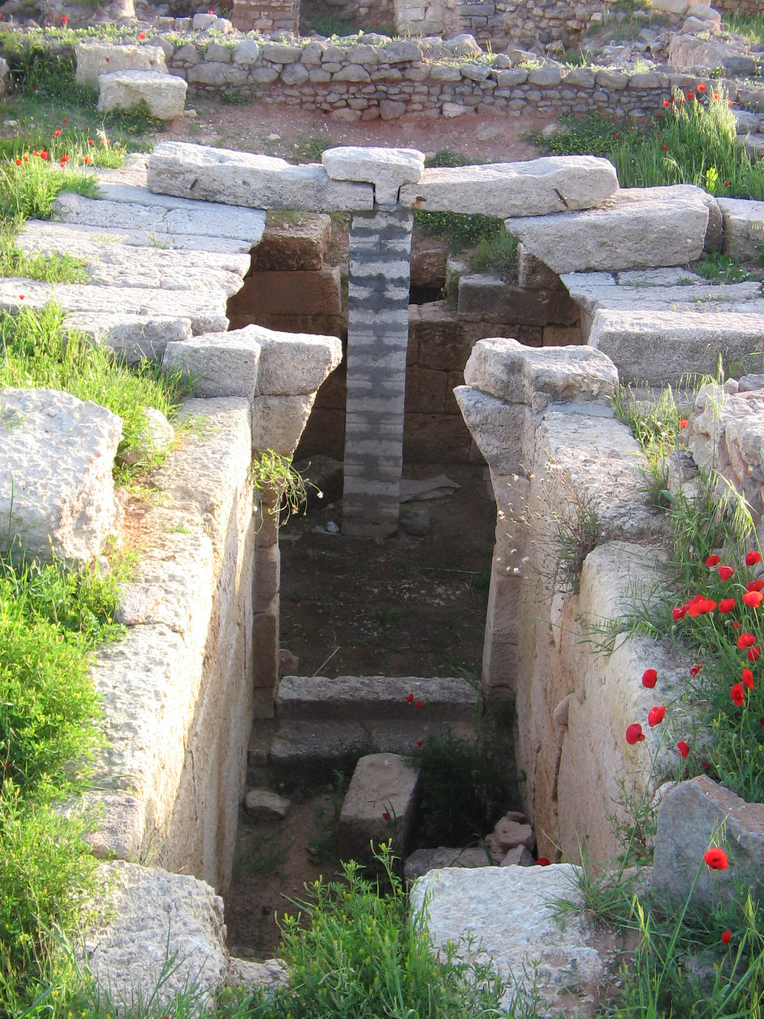 Tomb in the courtyard of a palace, Ugarit in 2006